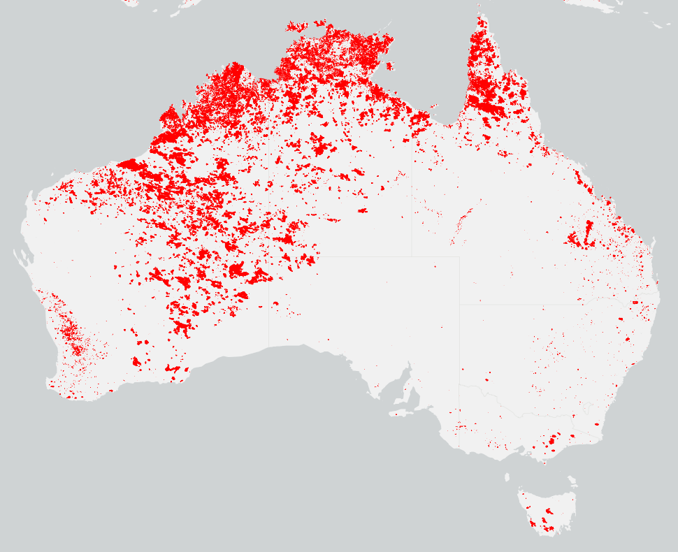 Burned areas shown in red detected by NASA's MODIS imaging sensors onboard Terra & Aqua satellites from June 2018 to May 2019. We acknowledge the use of data and imagery from LANCE FIRMS operated by NASA's Earth Science Data and Information System (ESDIS) with funding provided by NASA Headquarters.